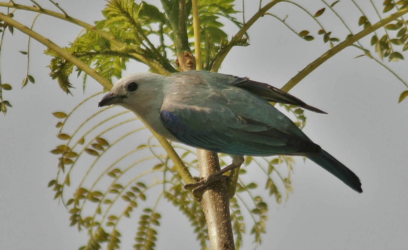 Blue Gray Tanager taking a photo break from eating aphids from tips of Jacaranda shoots.